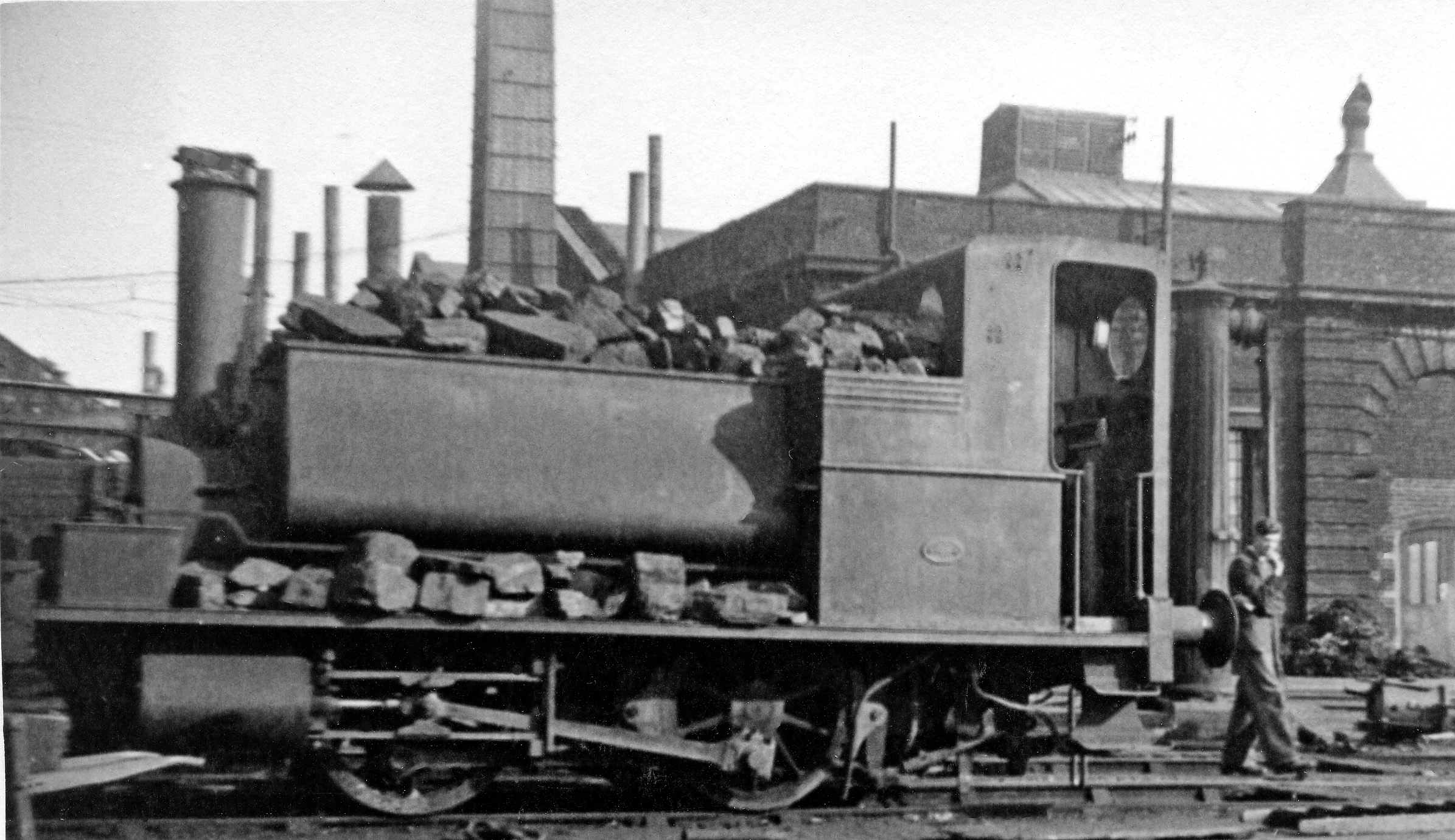 The unique 'Coffee Pot' ex-Great Eastern Y5 0-4-0T Service Locomotive. This ex-GE curiosity, built in 1903 as No. 230 (LNER 7230, then 8081 and BR 68081) was a survivor of eight diminutive Y5 0-4-0T's used for work in awkward places. It became the shunter for the Carriage Works at Stratford and is seen here outside Stratford Old (Locomotive) Works.